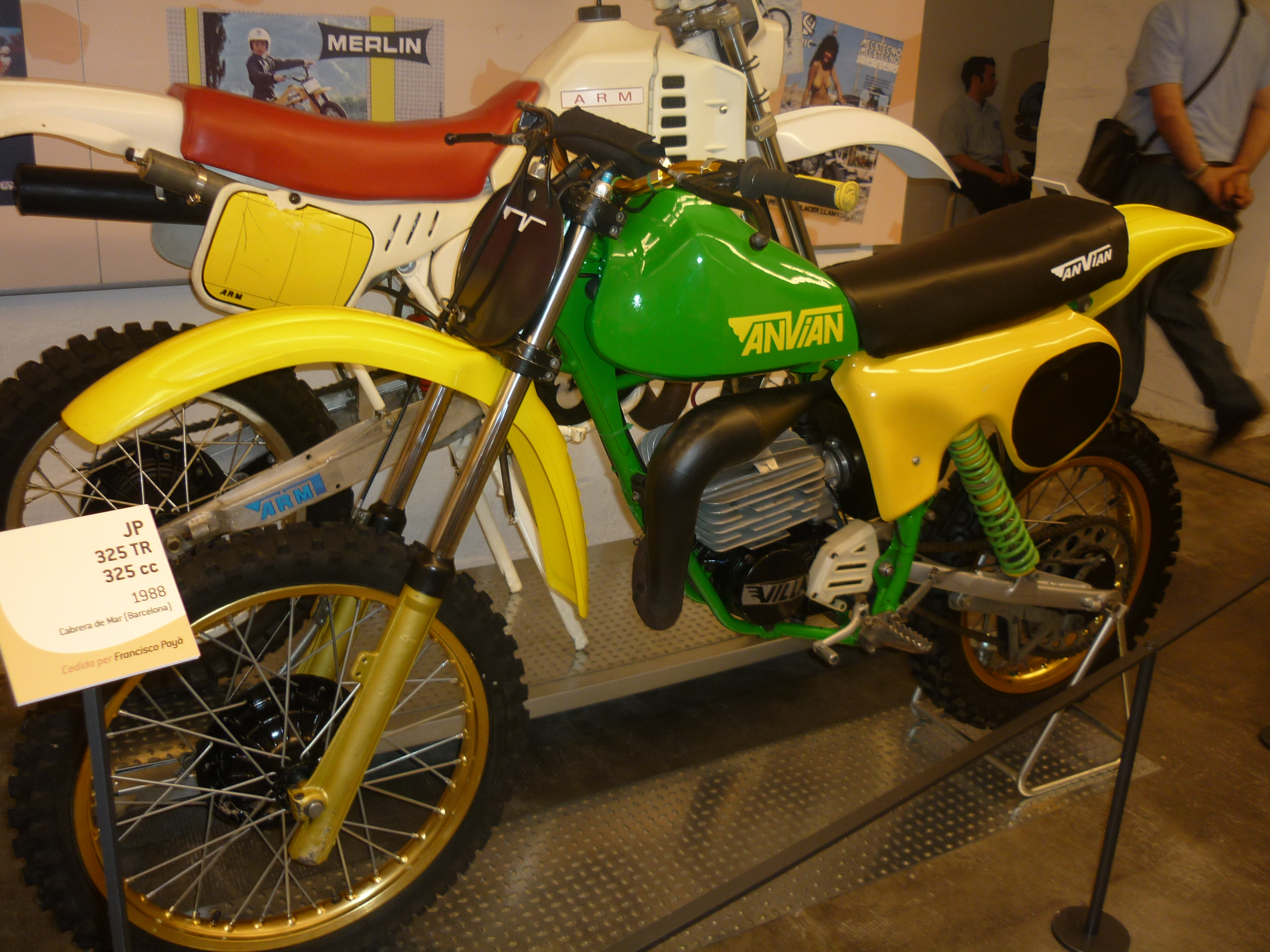 Anvian Cross 125cc (1981) with a Villa engine. Behind, a ARM Enduro 370cc (1984).Museu de la Moto de Barcelona (Catalonia).